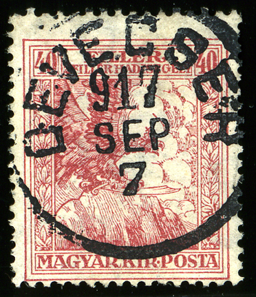 Kingdom of Hungary, issue 1916 stamp, 40 + 2 filler for help to war victims, cancelled DEVECSER in 1917. Michel N°185.